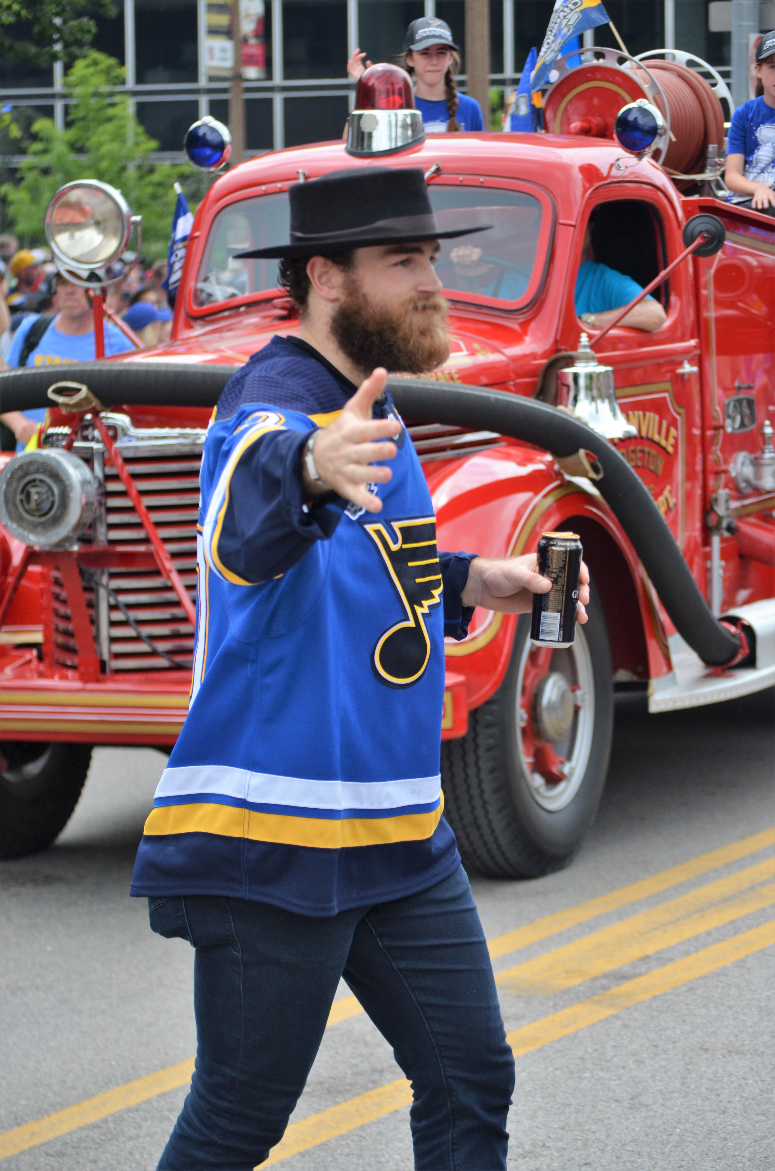 Ryan O'Reilly Headed For The Crowd During The 2019 Stanley Cup Parade